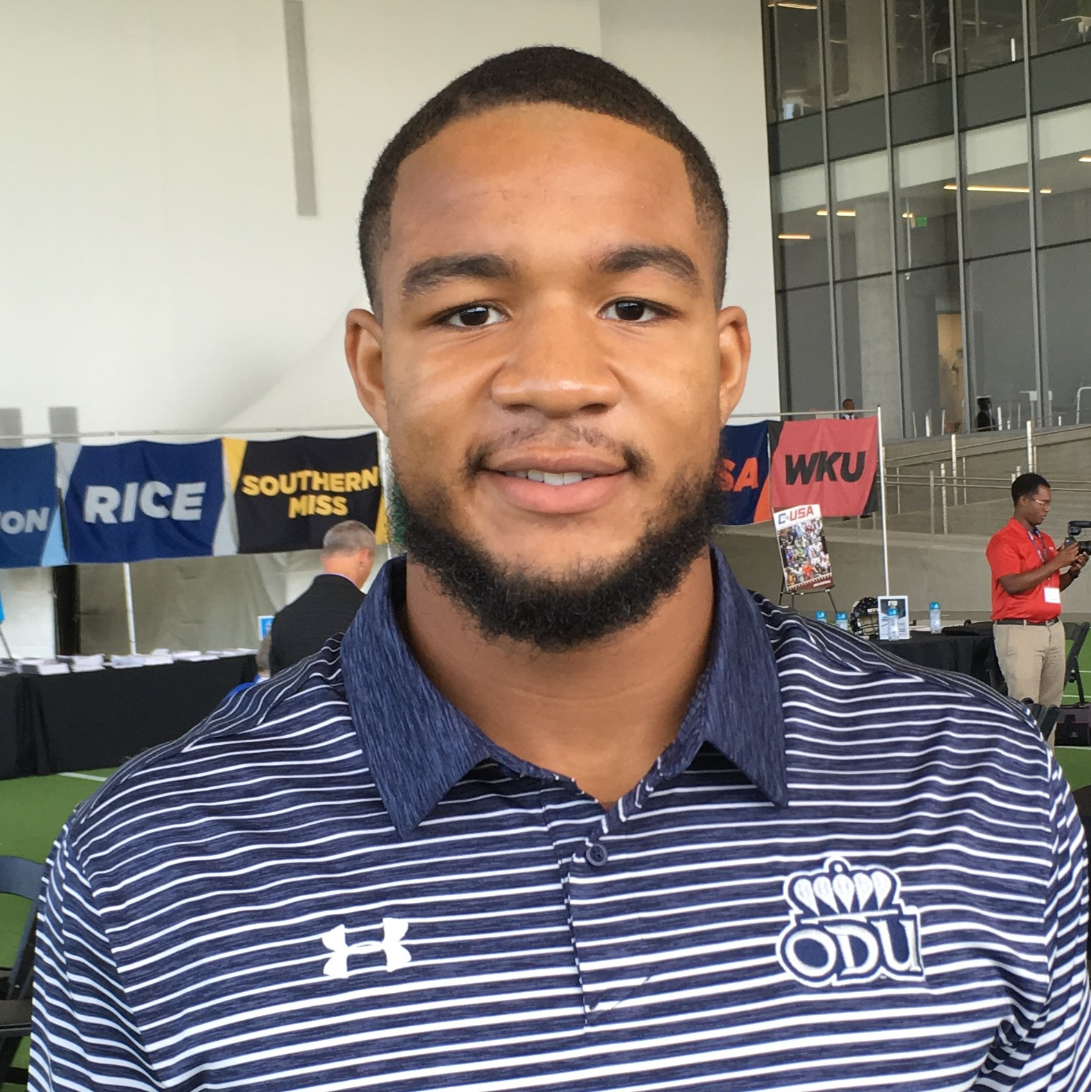 Oshane Ximines, linebacker for the Old Dominion Monarchs football team, at the 2018 Conference USA Football Kickoff in Frisco, Texas.